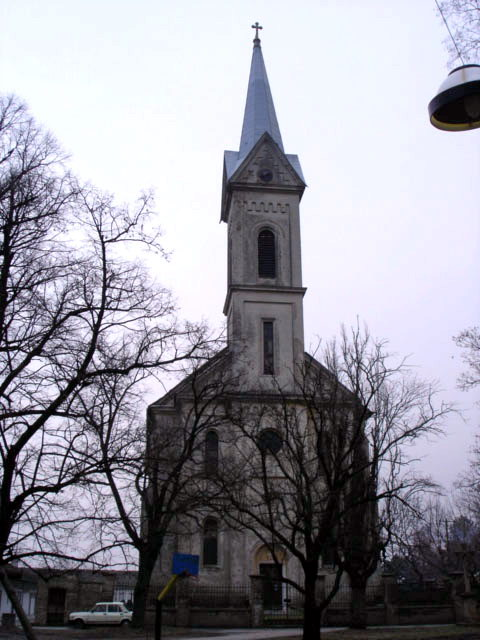 The Catholic church in Žabalj /Vojvodina /Serbia